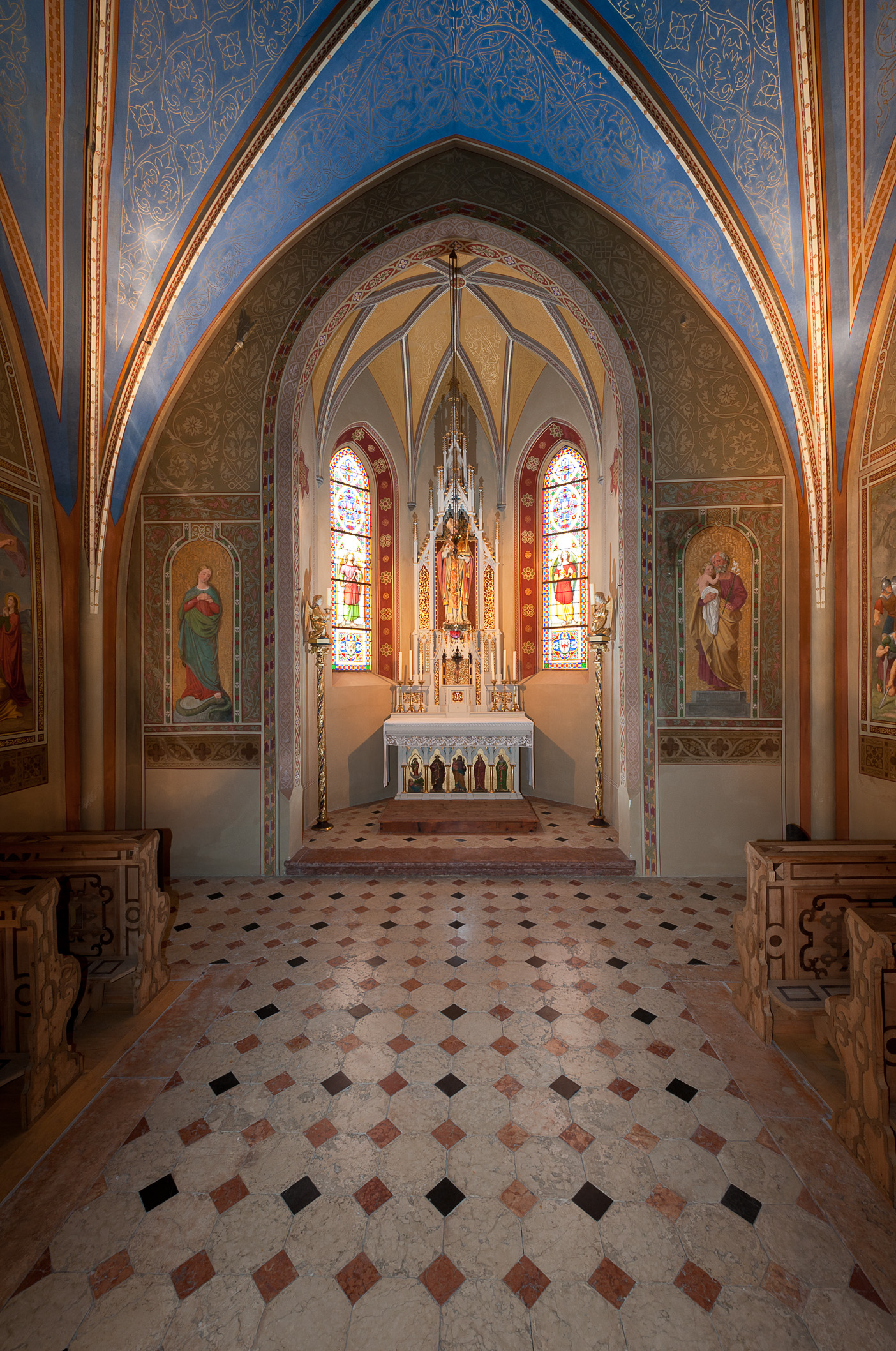 The Chapel of St . Nicholas in the Upper Castle of Ambras Castle, Innsbruck